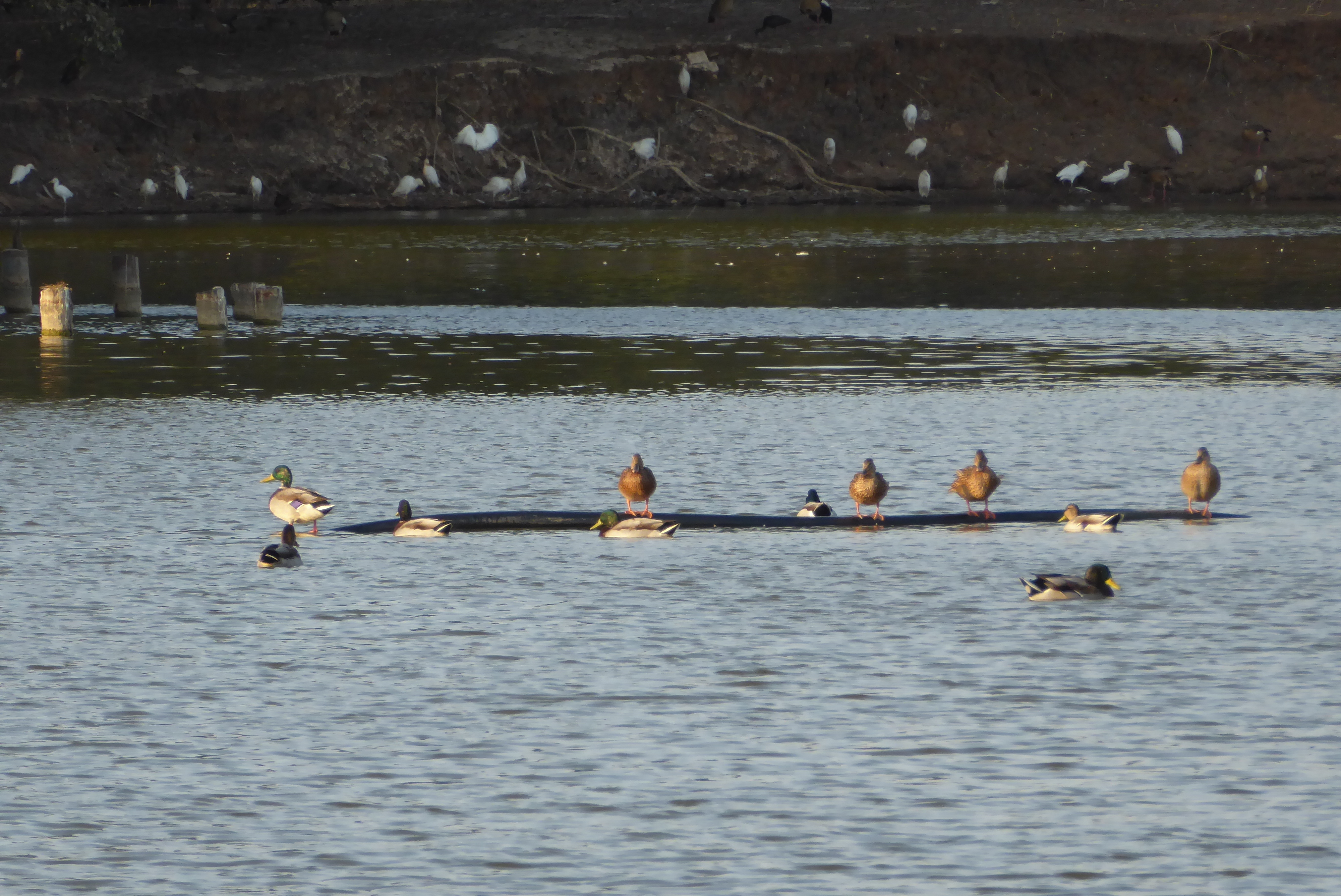 Birds of Ramat Gan, National Park, Ramat Gan